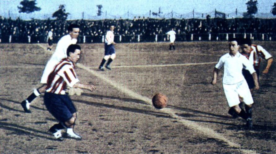 Madrid derby 1920